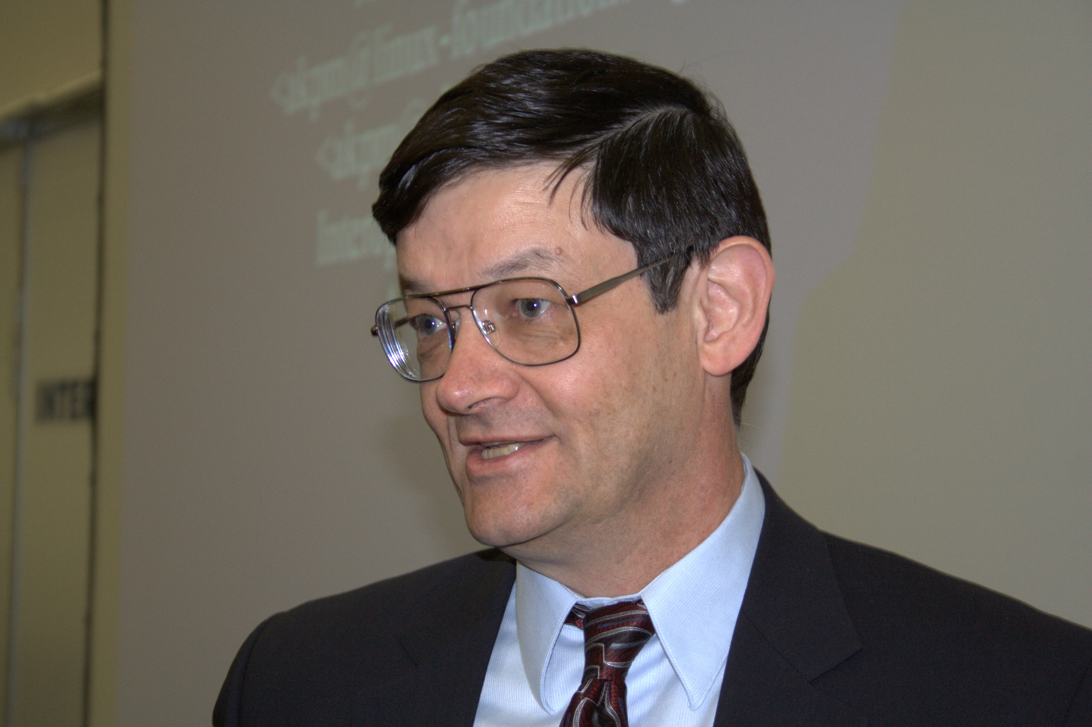 Andrew Morton, leading Linux kernel developer on the Interop conference (Moscow, 2008).